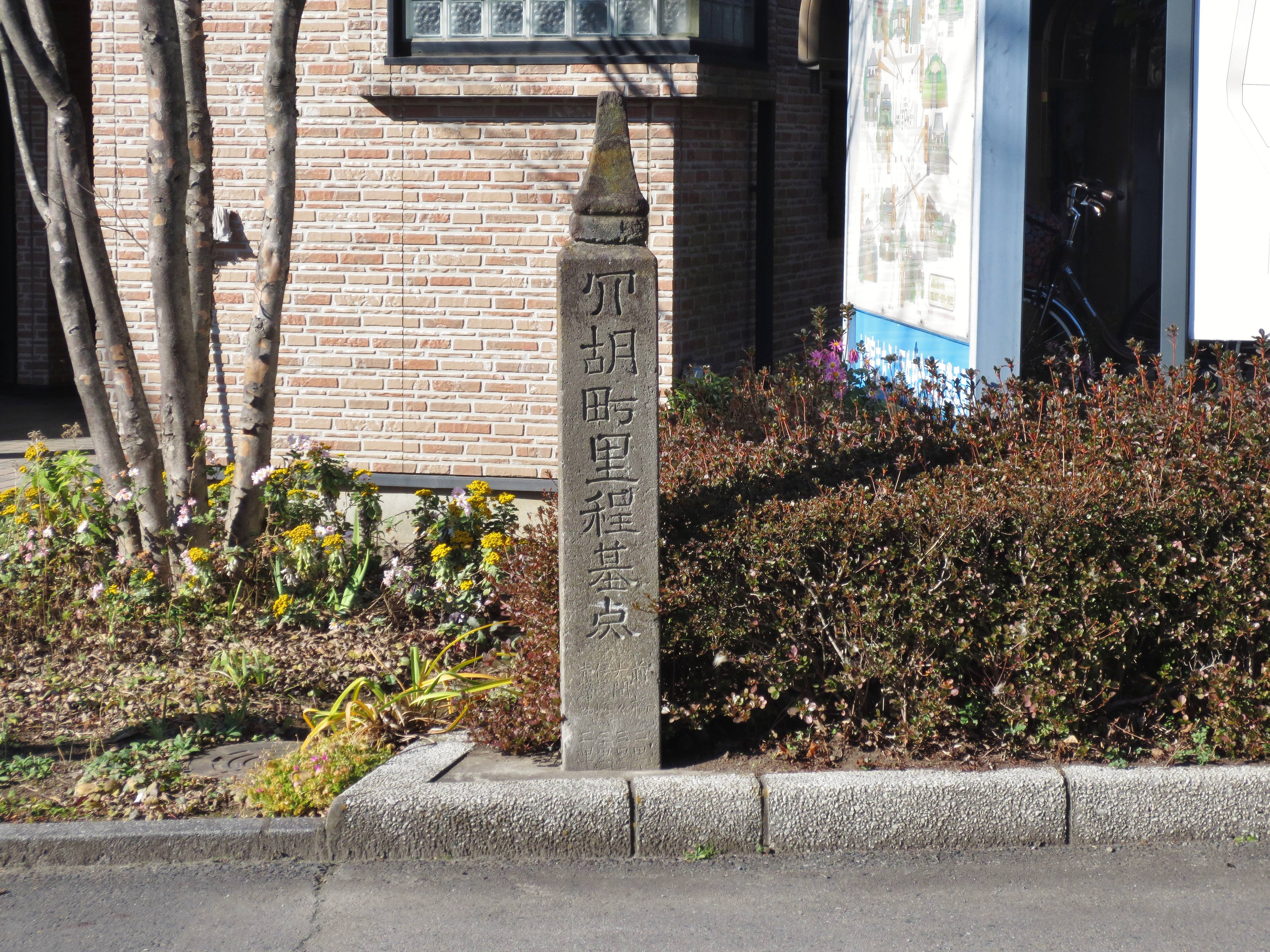 Ogo town Kilometre Zero.